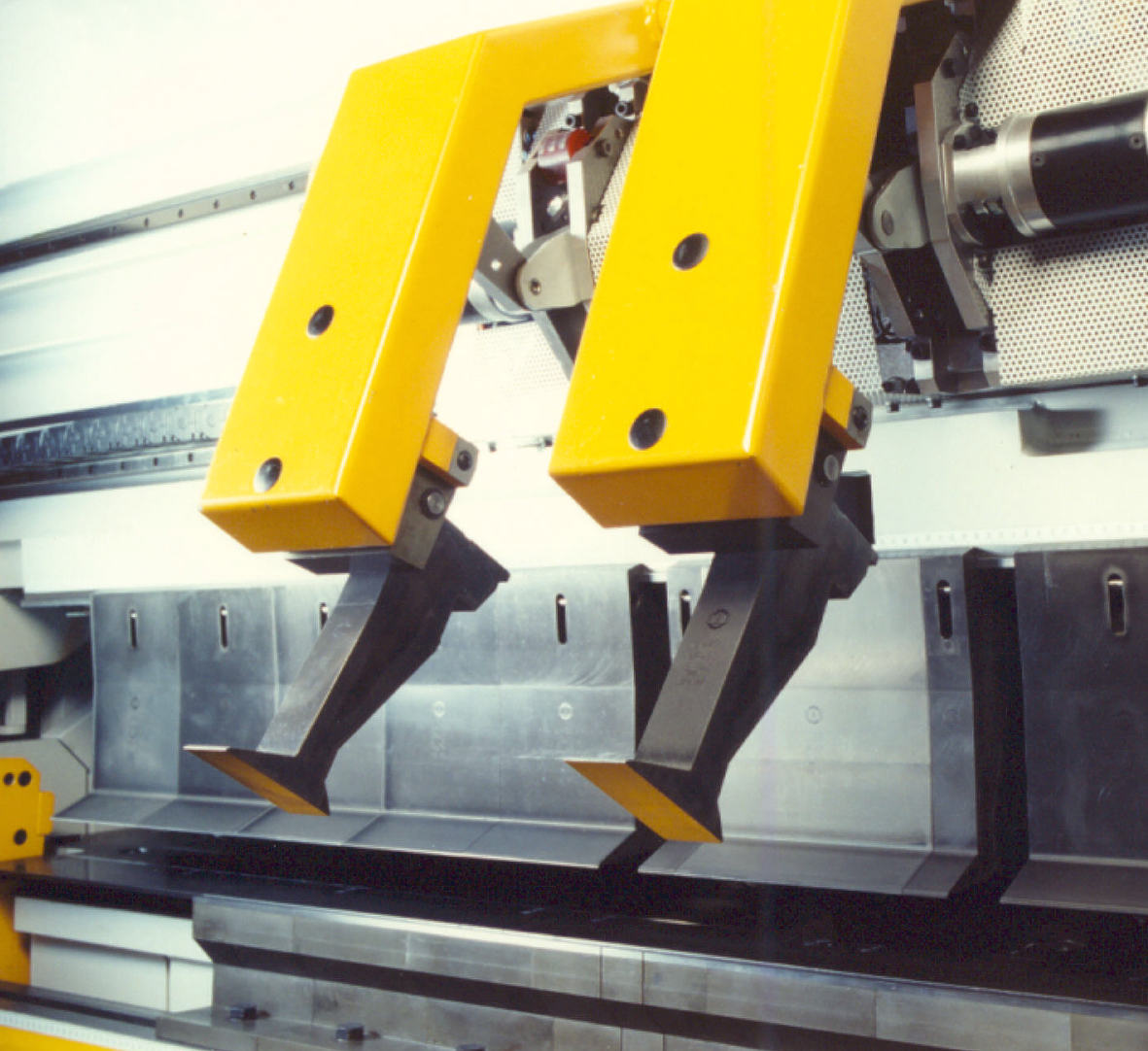 Automatic tool changer